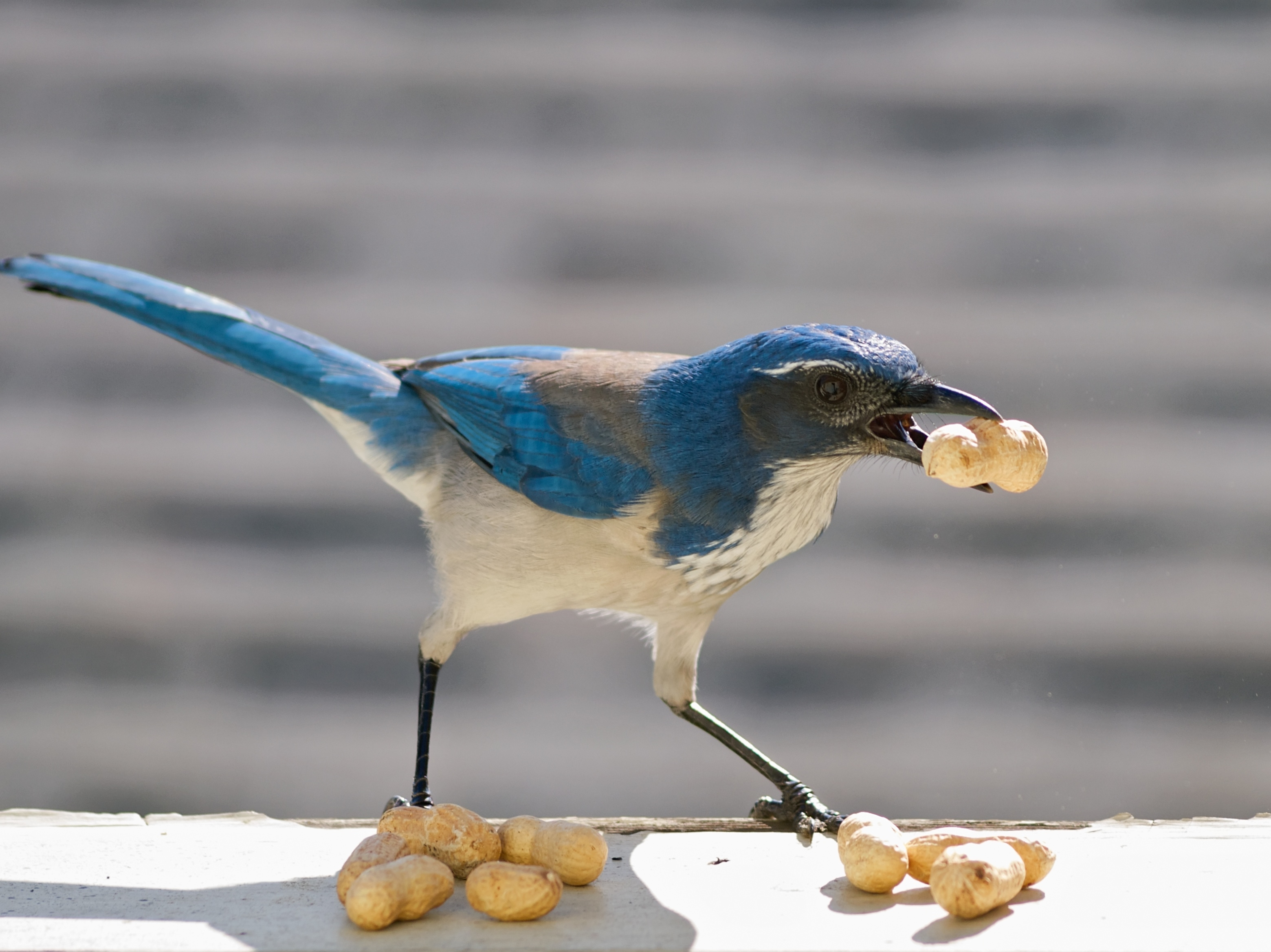 This scrub jay (Aphelocoma californica) hangs out by our kitchen window, and, I suspect, got friendly through handouts in the neighborhood. If we go out on the balcony, he'll fly on over and stare us down. Once in a while, a few peanuts magically appear.